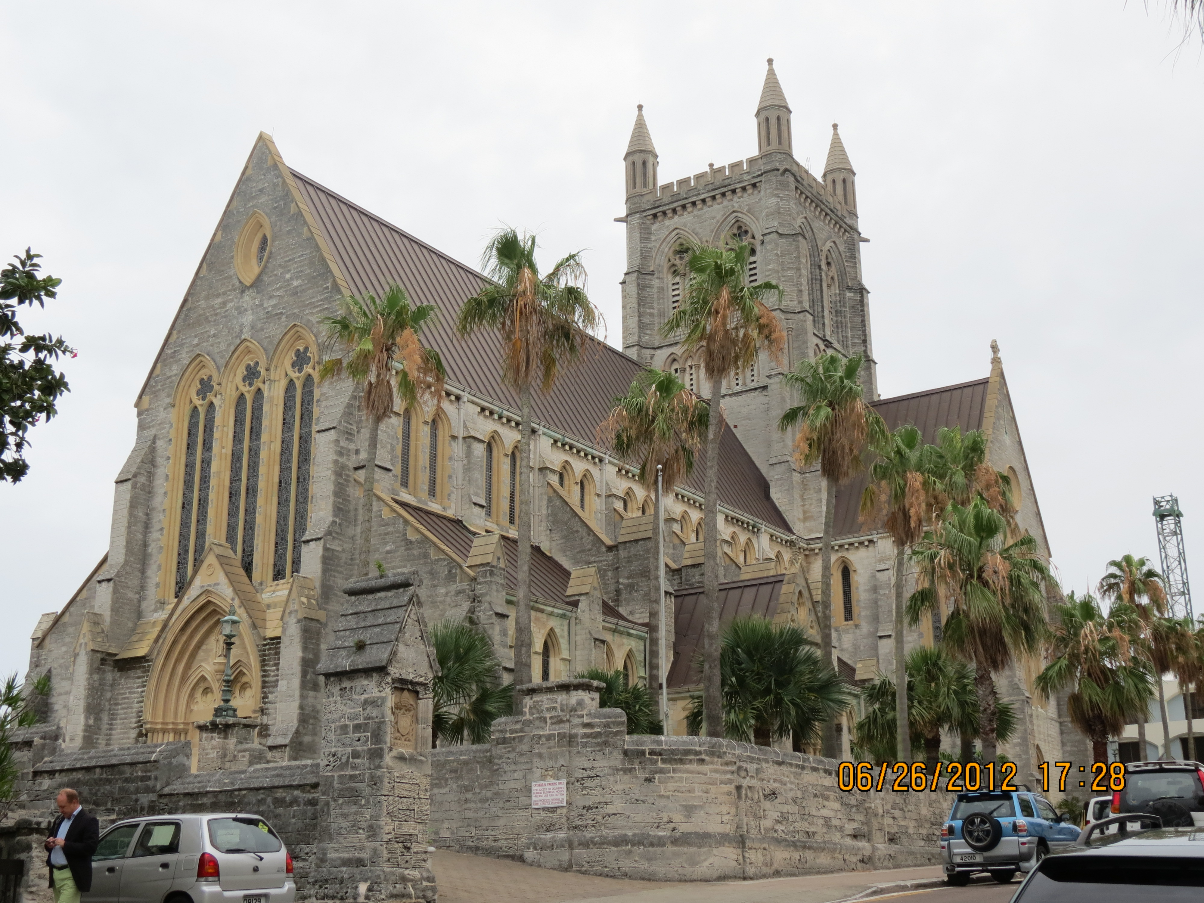 Hamilton church